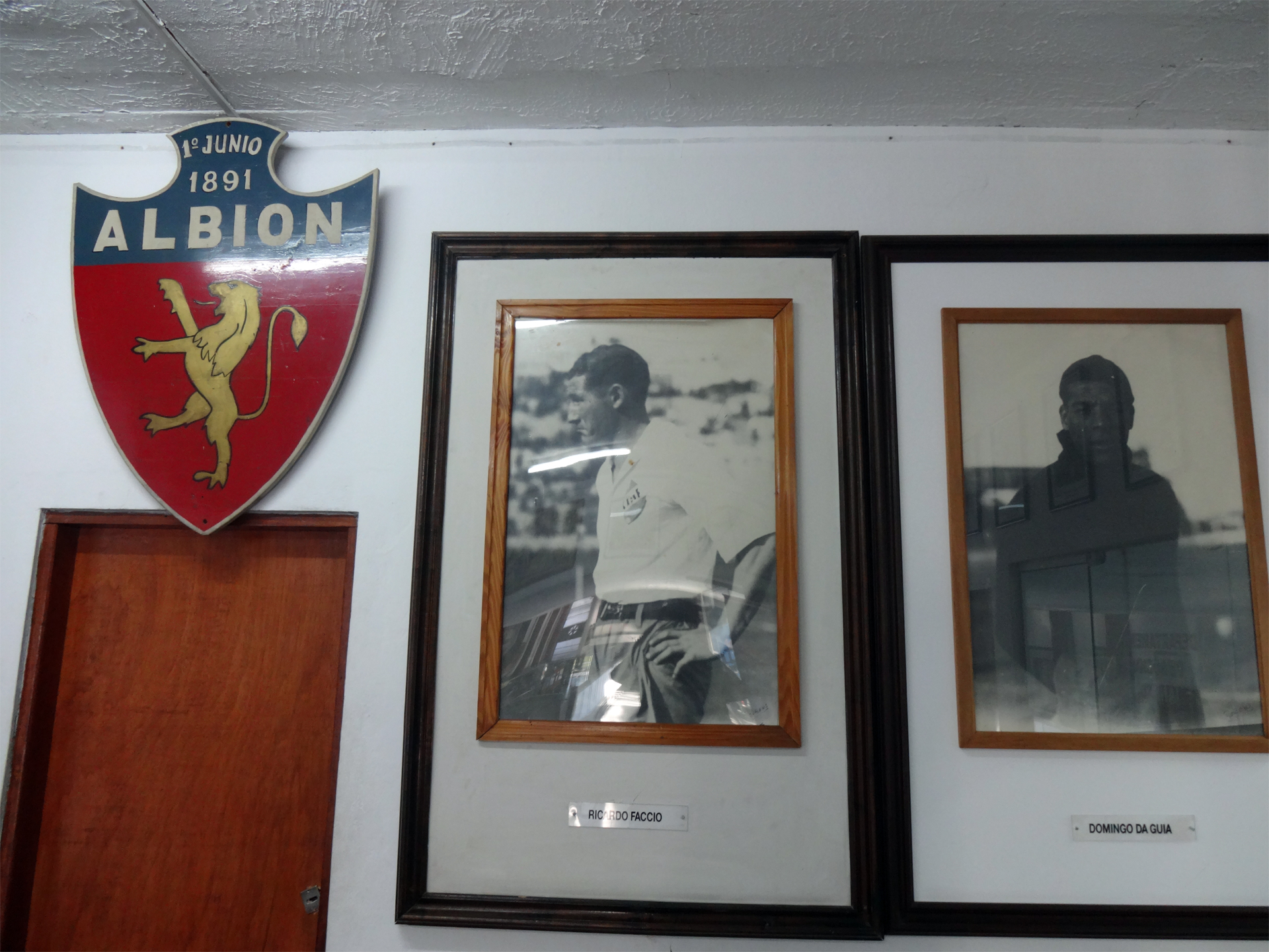 The Albion F.C. headquarter in Montevideo.